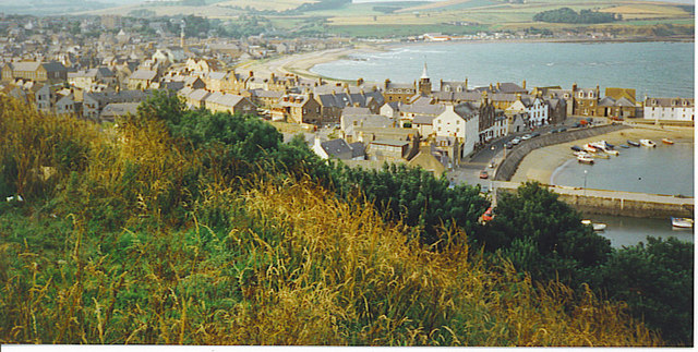 Stonehaven from Red Heugh Former county town of Kincardineshire. The old town is by the harbour. The tower here belongs to the Tolbooth.